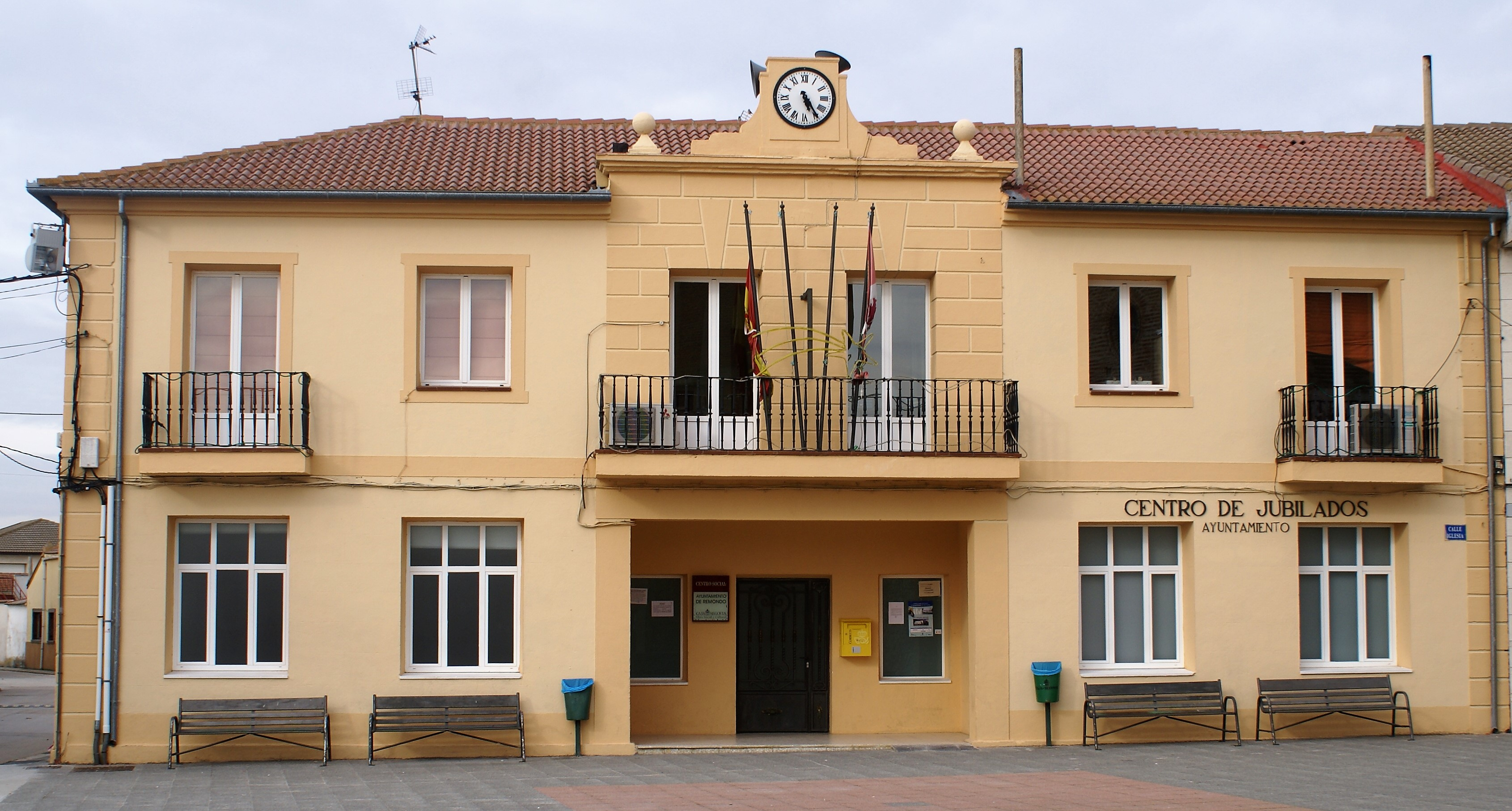 Town hall of Remondo, Segovia, Spain.